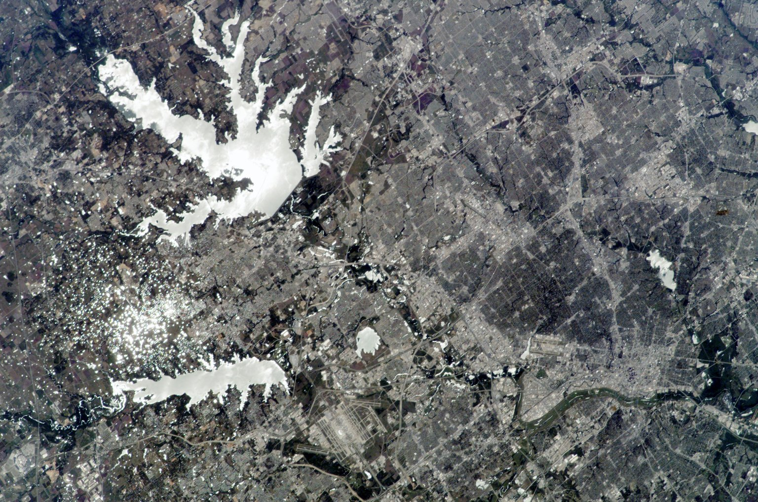 This image captures the northwestern portion of the metropolitan area. Standing water bodies such as Lake Lewisville and Grapevine Lake are highlighted by sunglint, where the surface of the water acts as a mirror reflecting sunlight back towards the astronauts on the Station.